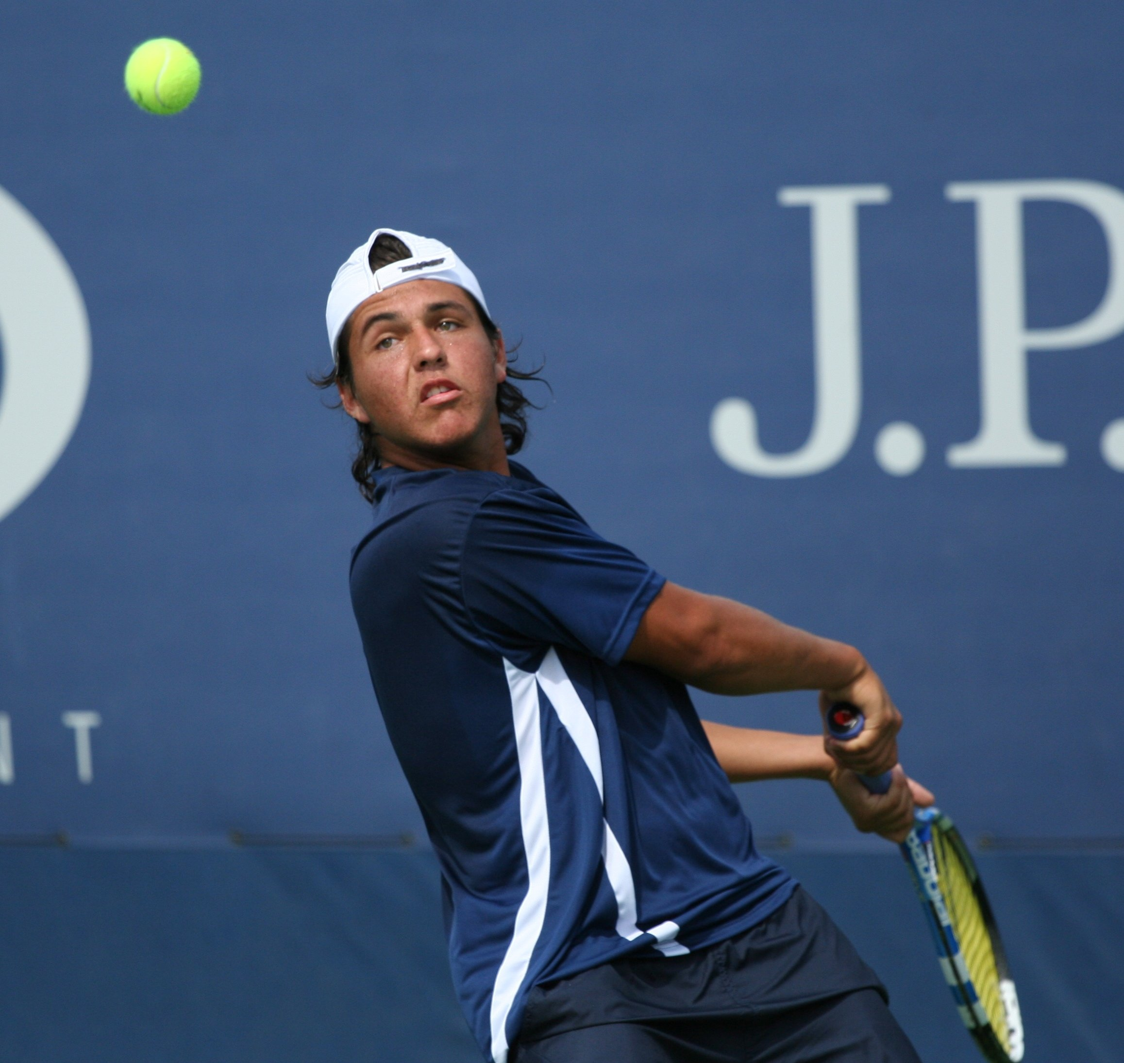 Duilio Beretta U.S. Open Juniors Tuesday, Sept. 8, 2009